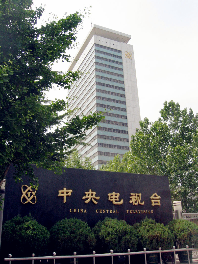 China Central Television former headquarters, now China Media Group headquarters. This is a view of then tower from the entrance.